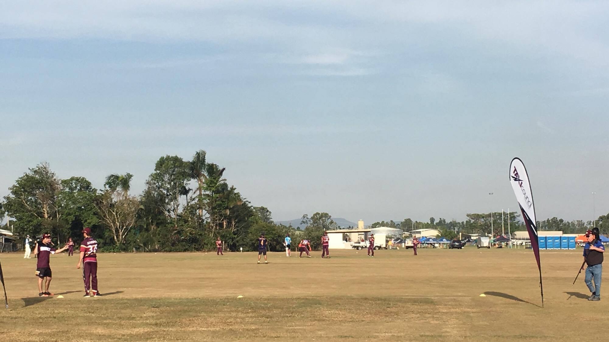 The Queensland Cricket team plays a match at the Proserpine Cricket Club on September 15, 2017